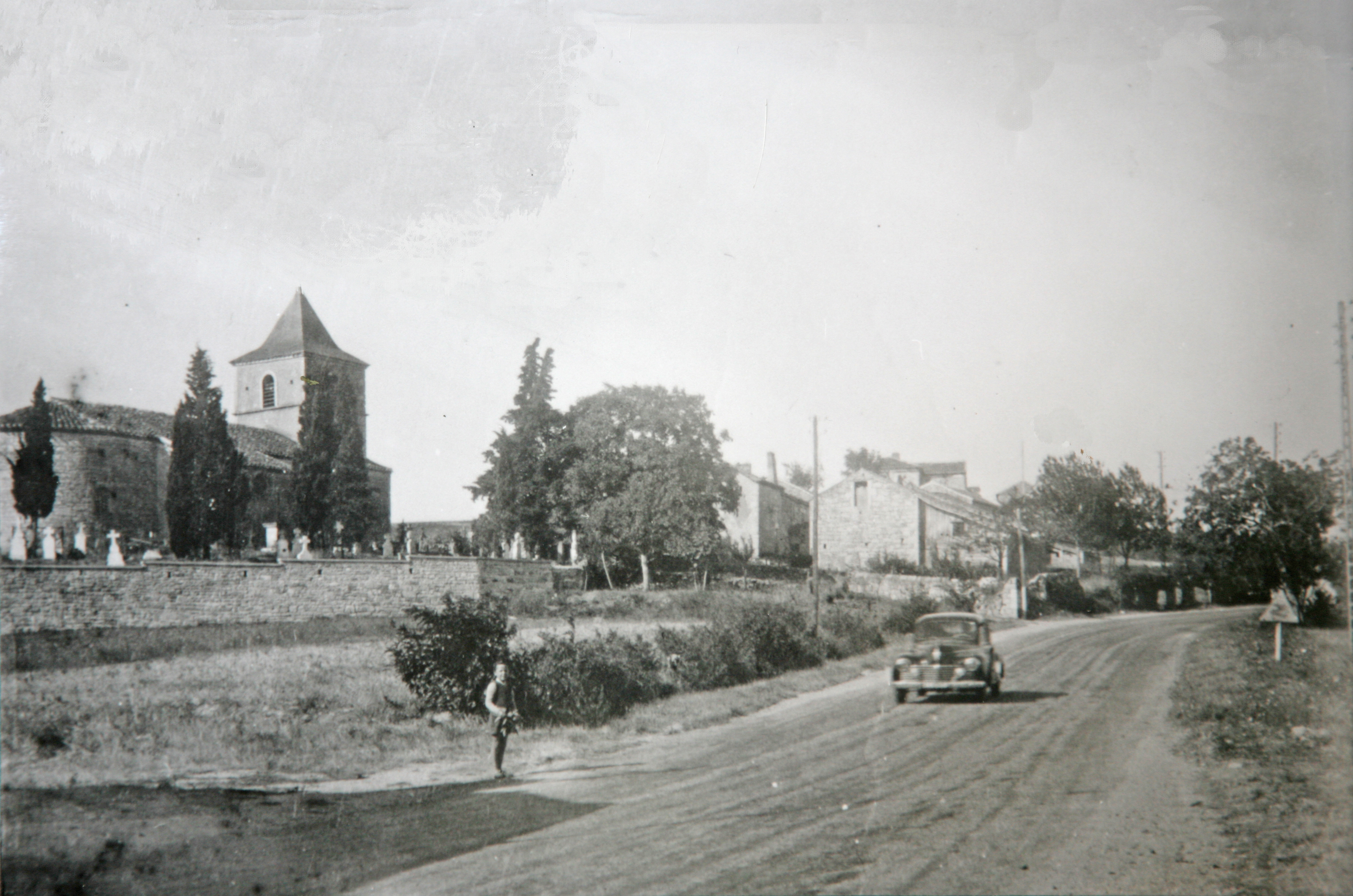 Saint Pierre Lafeuille in the 1950s